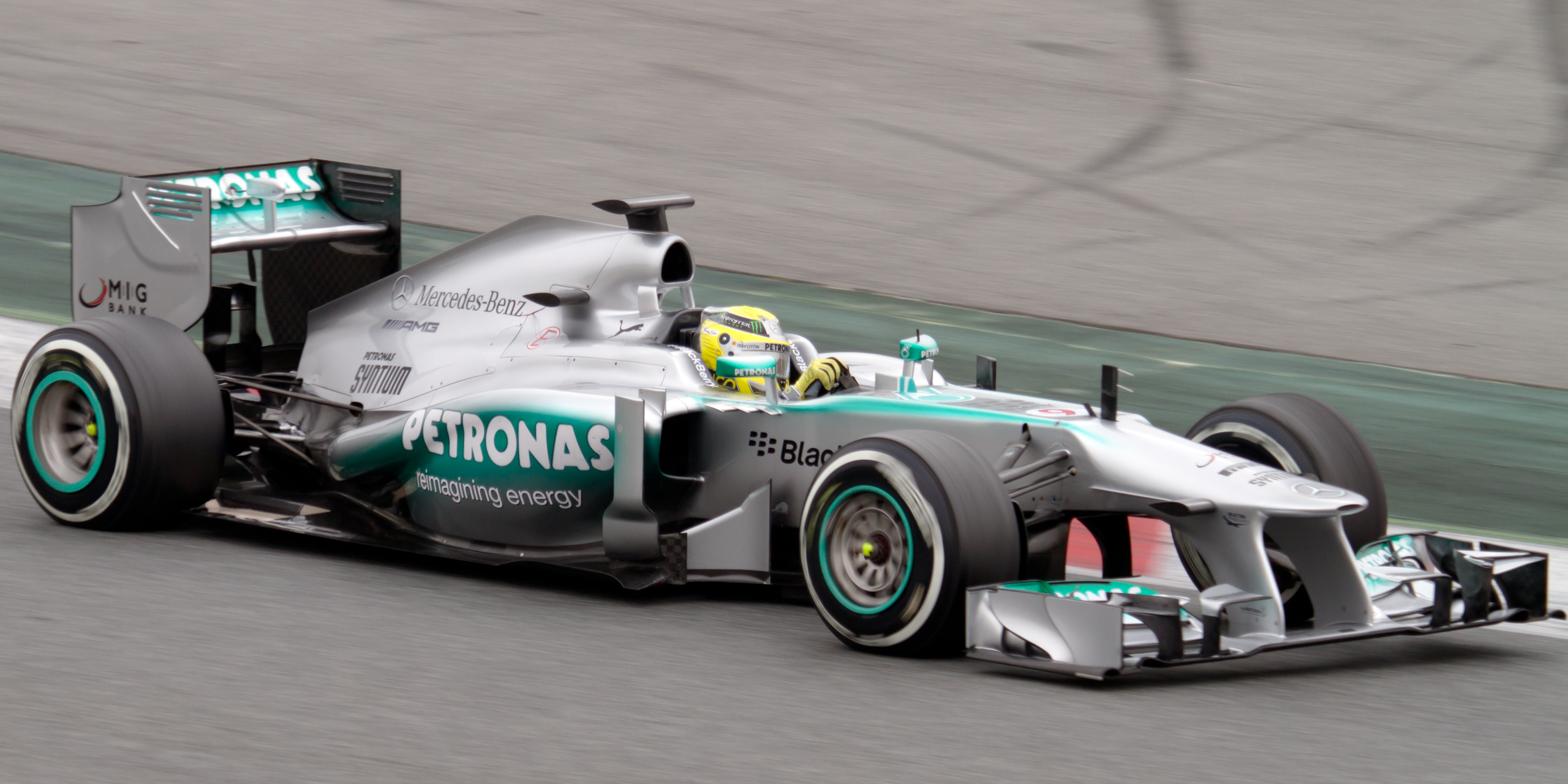 Formula One 2013 Catalonia test (19-22 February): Nico Rosberg (Mercedes GP)